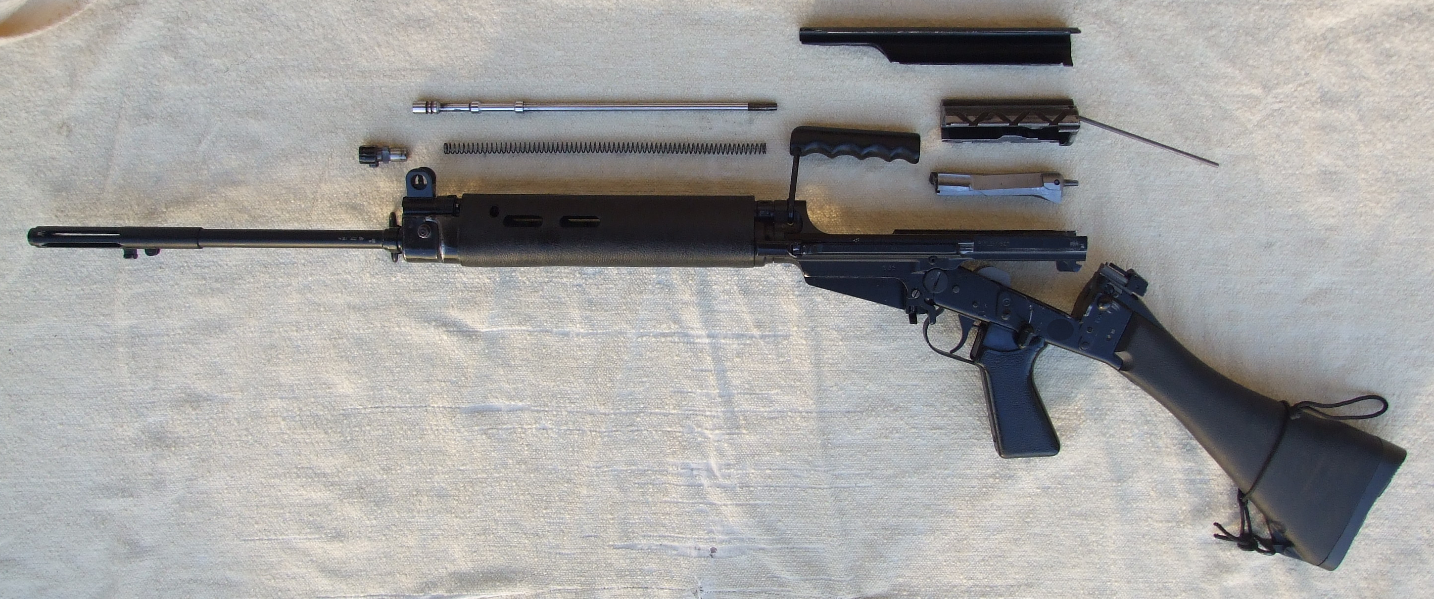 British assault rifle L1A1 field stripped.